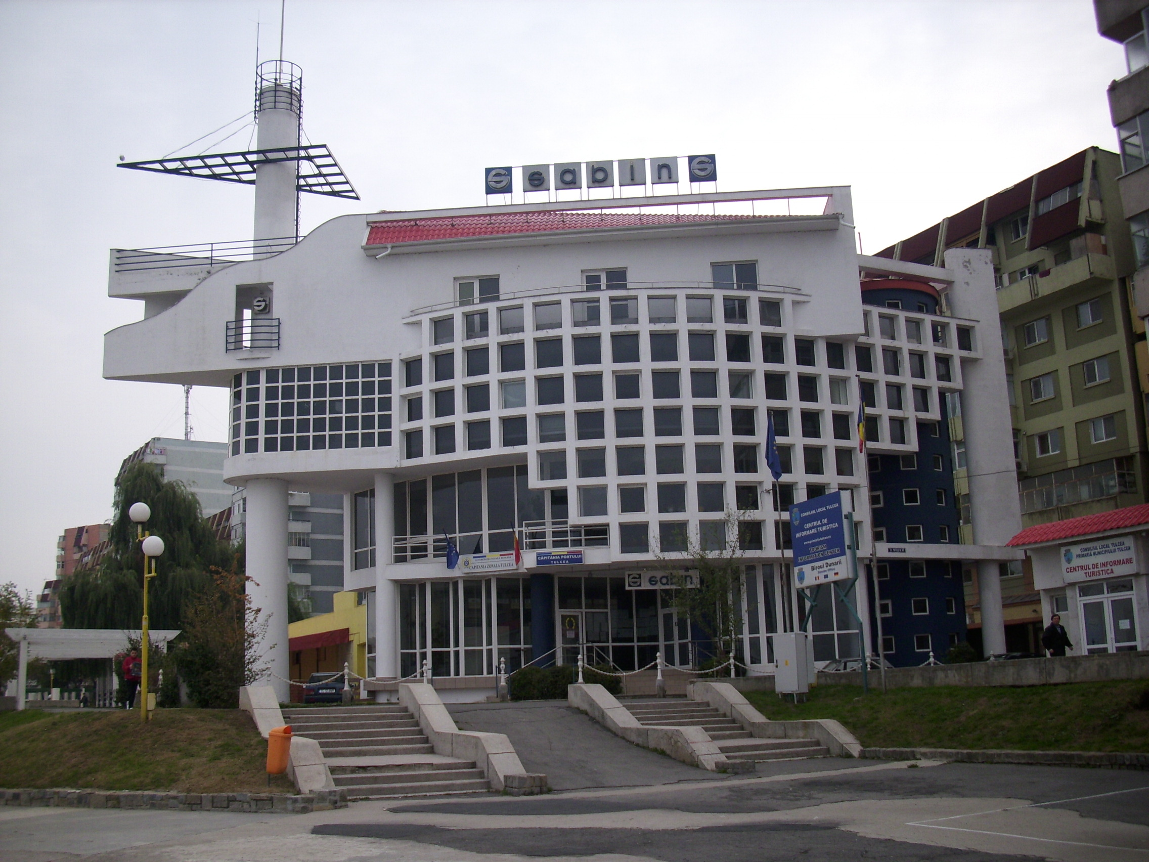 tulcha new capitania